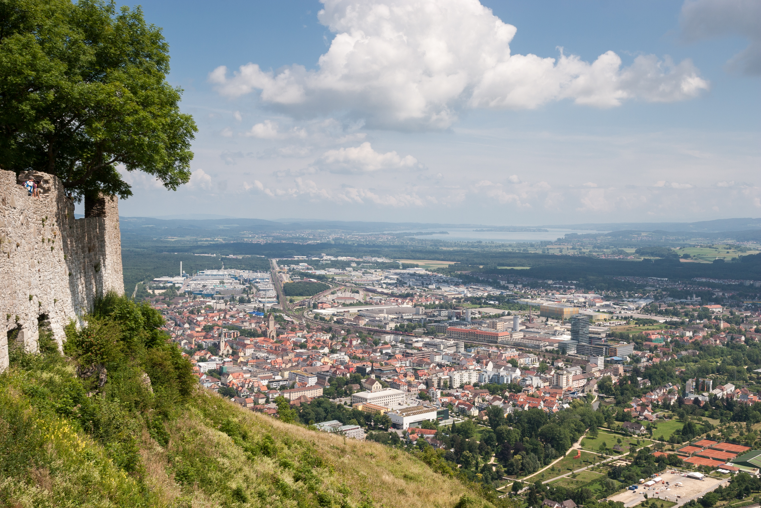 View from Hohentwiel to the city of Singen